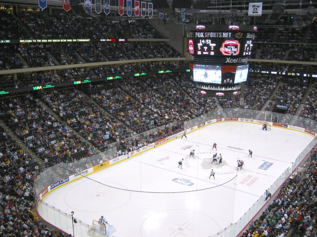 A faceoff between the University of North Dakota Fighting Sioux and the Saint Cloud State University Huskies during the 2006 WCHA Final Five at the Xcel Energy Center.